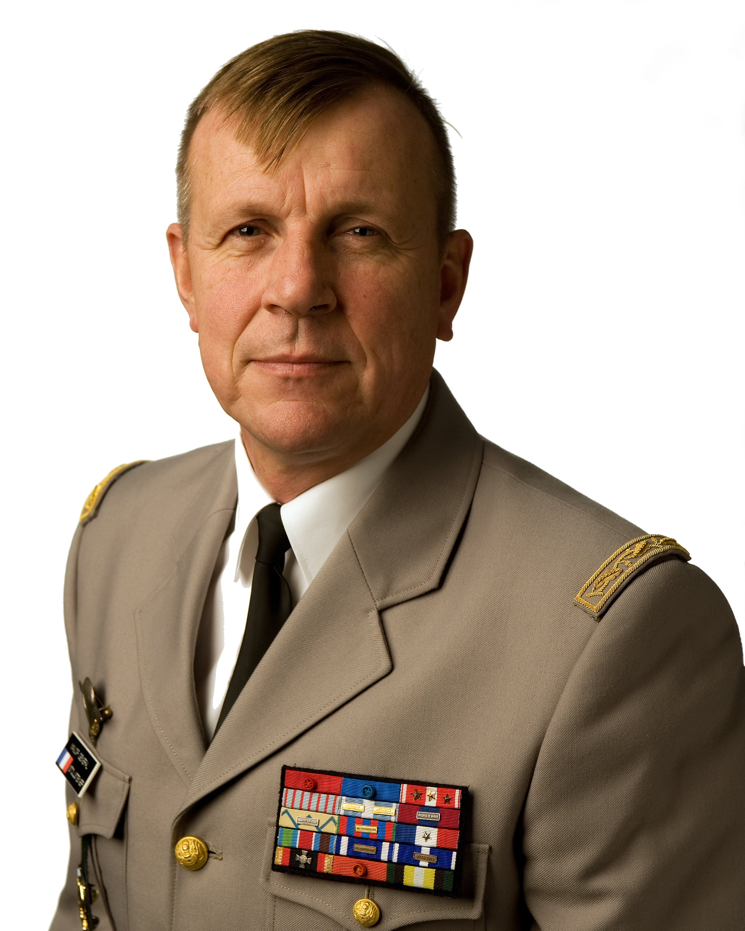 This official portrait shows Maj. Gen. Stollsteiner, special advisor to the Supreme Allied Commander Europe and head of public affairs at Supreme Headquarters Allied Powers Europe. (Photo by Staff Sgt. James Hennessey)